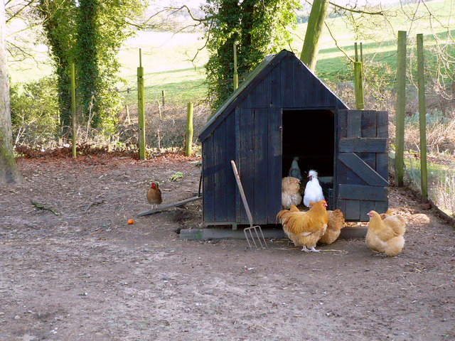 Henhouse near Ganthorpe